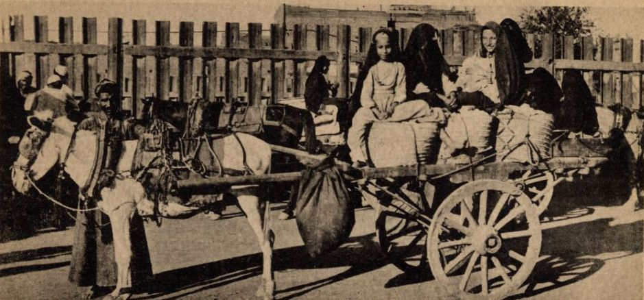 Natives riding a mule-drawn cart